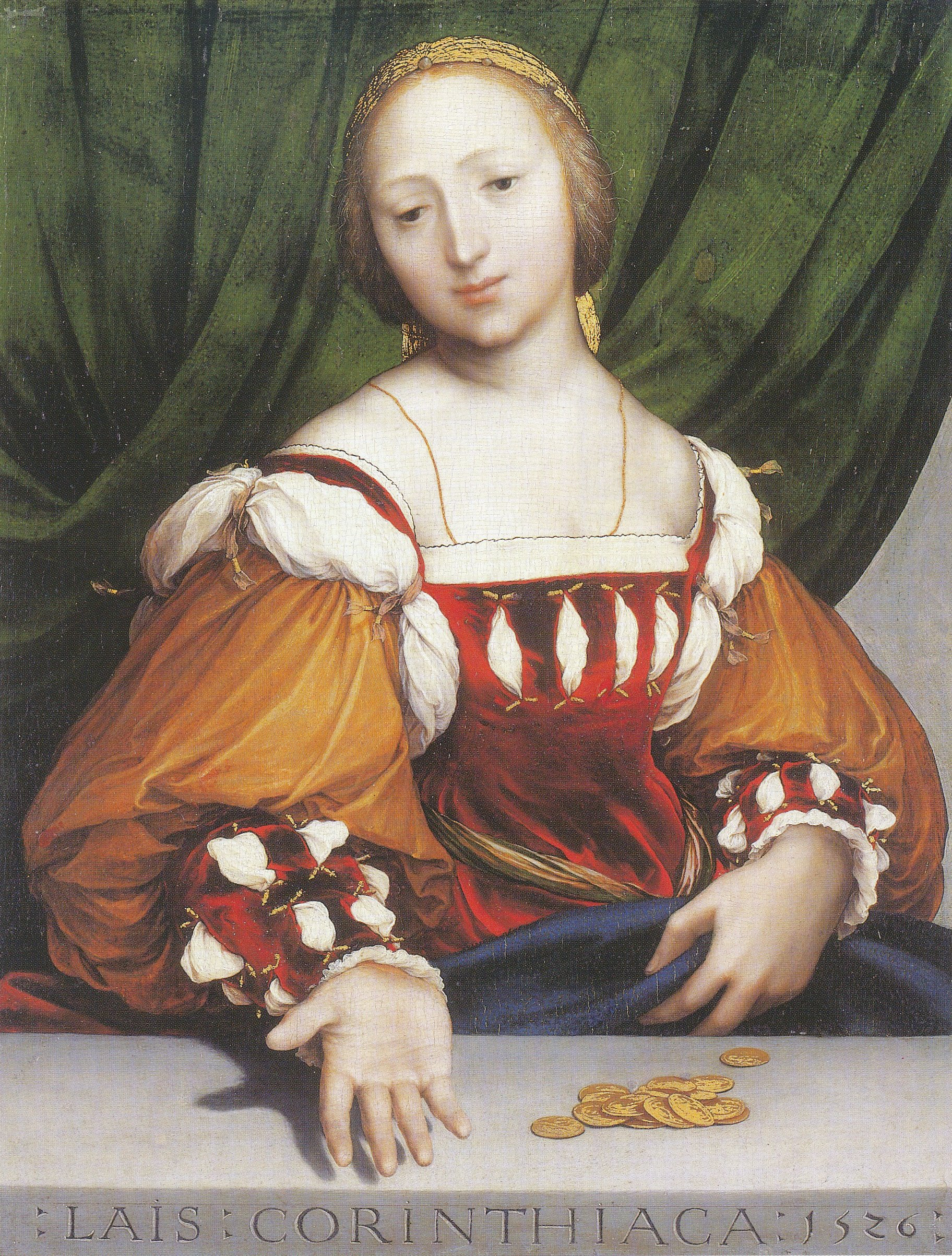 Venus and Amor This painting portrays the famous Lais of Corinth, a courtesan of ancient Greece who charged a high price for her favours. It has been suggested that Holbein is also referring to the Lais who was the lover of Apelles, the great painter of antiquity (Holbein was called "Apelles" in humanist circles). The model, the same used for Holbein's Darmstadt Madonna and for his Venus and Amor (right), has been identified as Magdalena Offenburg, who may have been Holbein's mistress. Holbein's Lais was painted a year or two after Venus and Amor and, in effect, acts as its companion piece, though Holbein does not appear to have originally planned the second painting. According to some commentators, the portrayal of the sitter as a courtesan may contain a coded message by Holbein about his relationship with Magdalena. Art historian Peter Claussen, however, dismisses this interpretation as "pure nonsense". Both paintings employ the same colours and depict the same costume and drapery. Holbein adopts the style of Leonardo and the Lombard muralists, whose work he may have studied during a visit to Italy. He uses Leonardo's sfumato (smoky) technique to blend the skin tones, as well as the device of the parapet to set the subject back from the viewer. (References: Buck, pp. 44–43; Derek Wilson, Hans Holbein: Portrait of an Unknown Man, London: Pimlico, 2006, ISBN 1844139182, pp. 112–13; Peter Claussen, "Holbein's Career between City and Court", in Müller, Kemperdick, Ainsworth, et al, Hans Holbein: The Basel Years, 1515–1532, Munich: Prestel, 2006, ISBN 9783791360522, p. 47.)